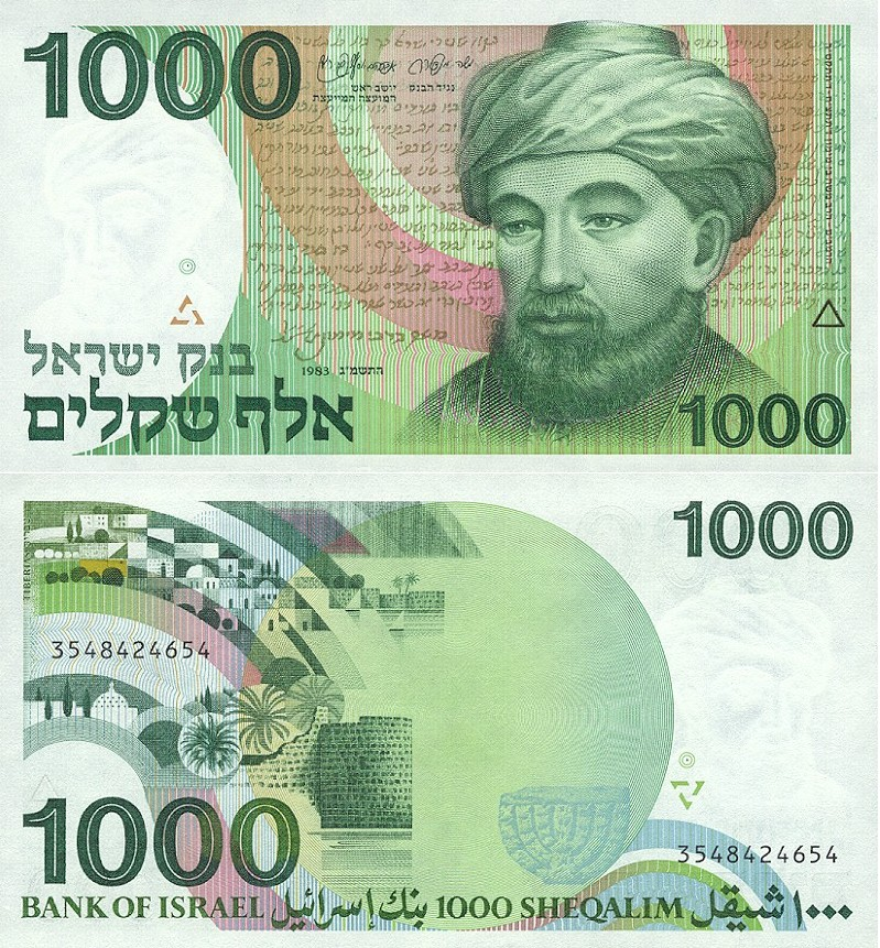 Obverse & Reverse side of a 1000 sheqalim bill, paper.